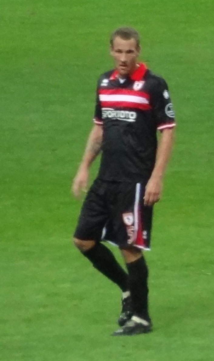 fink against galatasaray